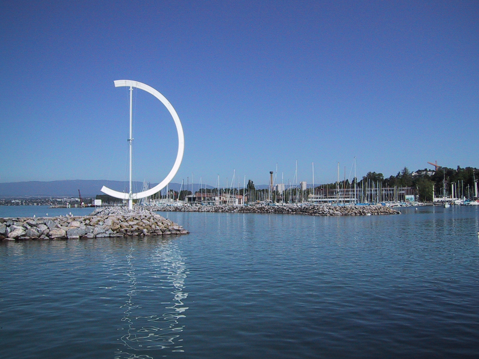 A view of the Ouchy waterfront, south of Lausanne, Switzerland. Original photo taken by Julius Kusuma.